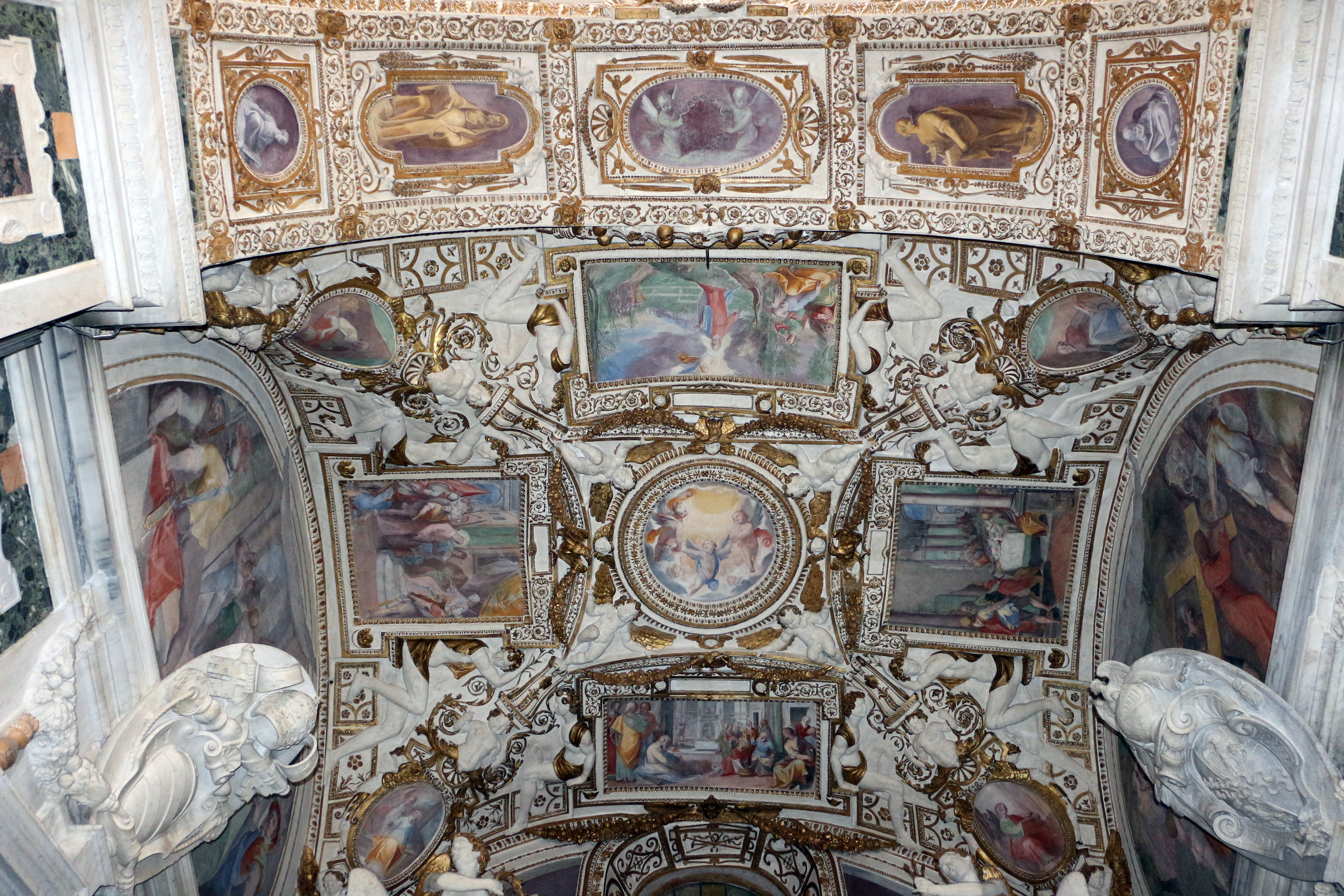 Trinità dei Monti (Rome) - interior